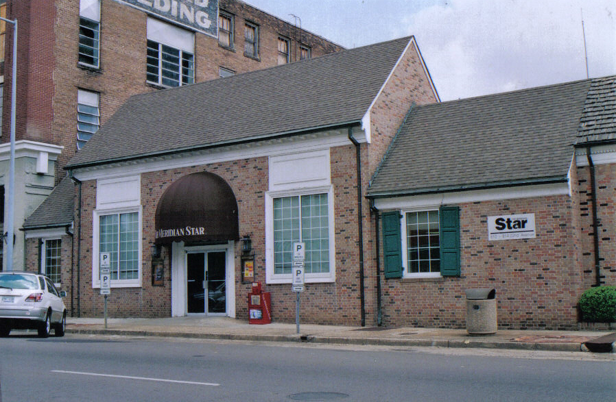 Headquarters of the Meridian Star, a newspaper in Meridian, Mississippi